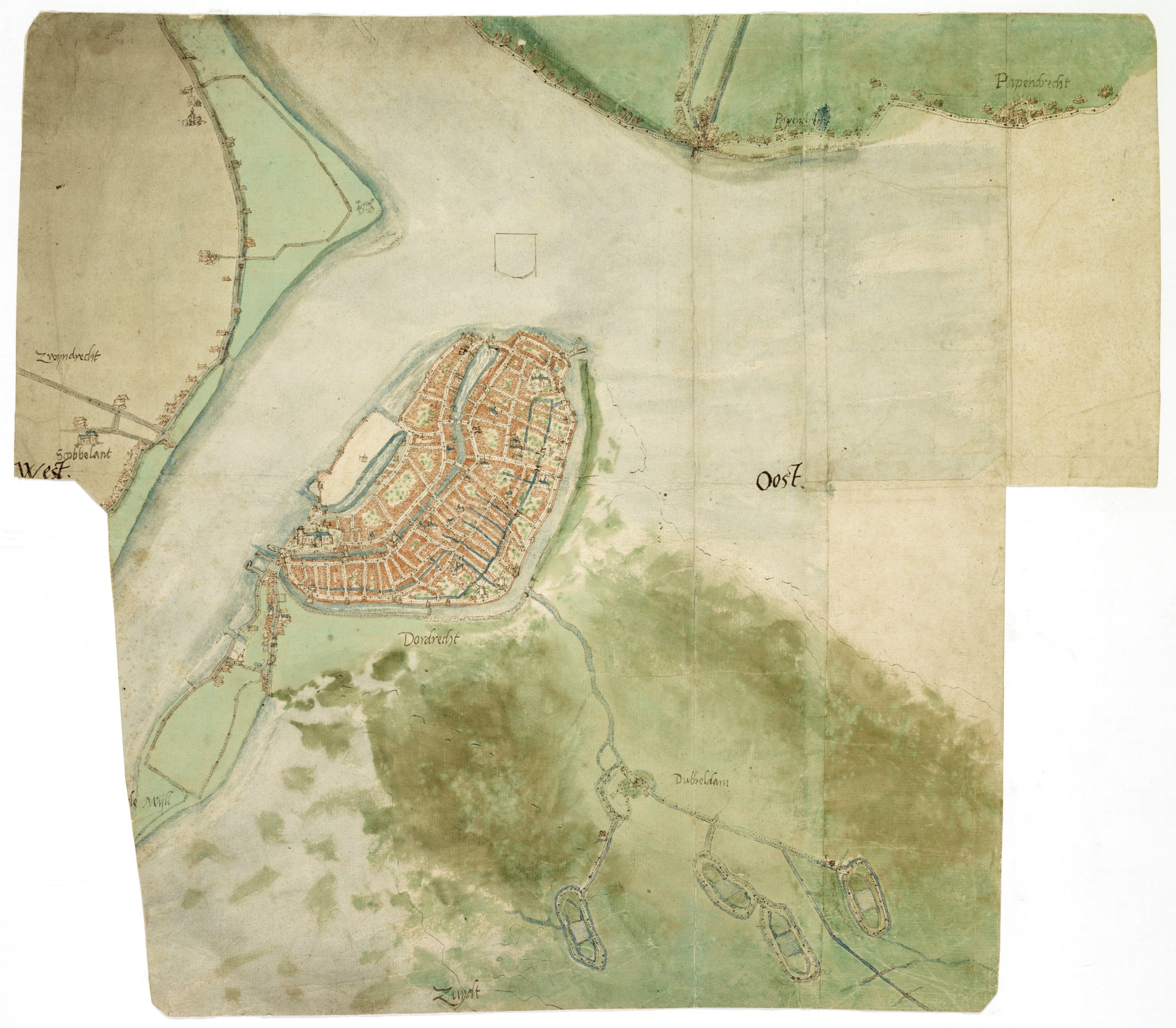 Map of Dordrecht, Netherlands by Jacob van Deventer, about 1550.